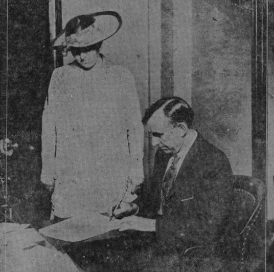 Tennessee Governor Albert H. Roberts (1868–1946) certifying the state's ratification of the 19th Amendment in August 1920. Memphis suffragist Charl Williams stands watching.